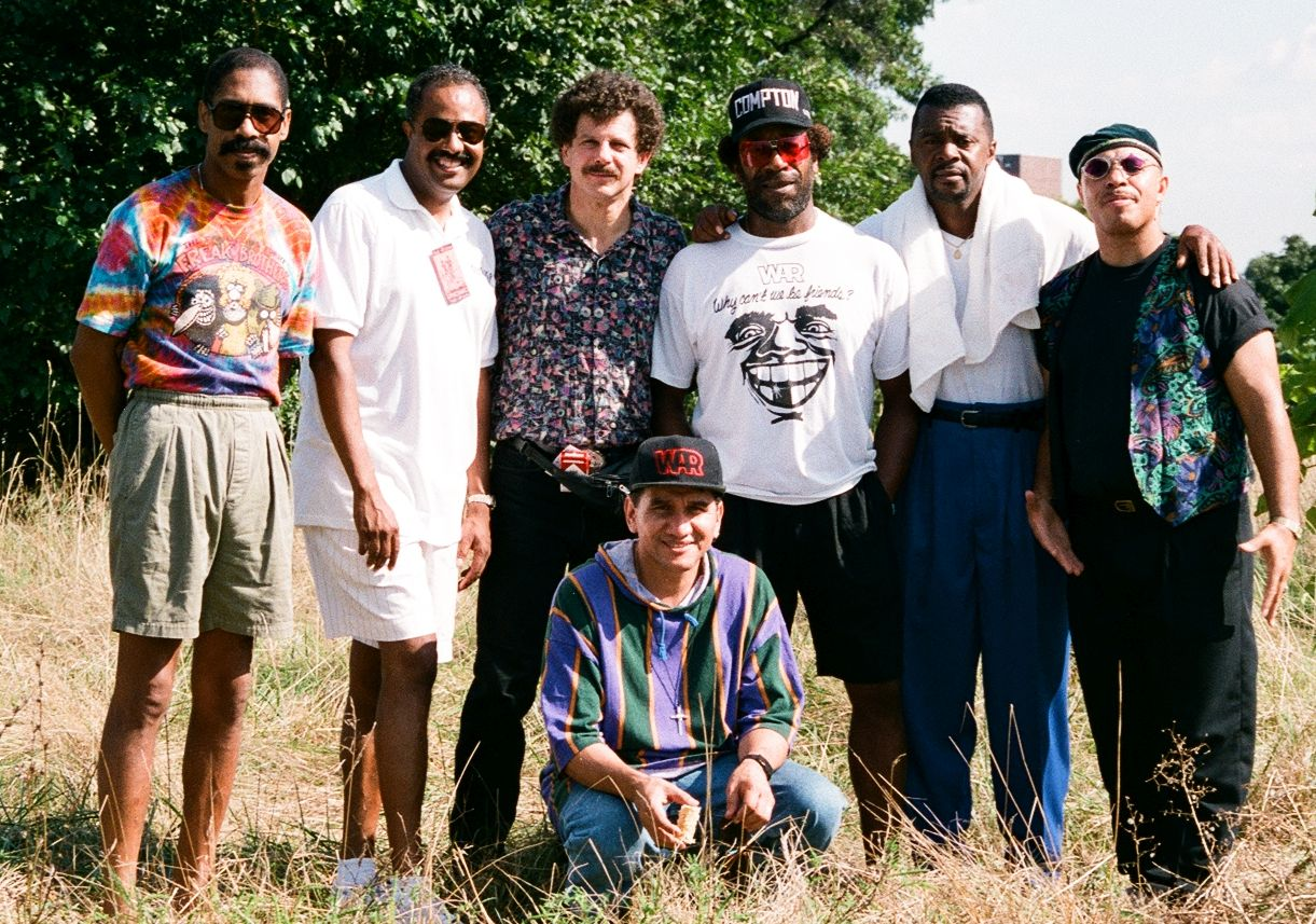 " WAR "... the Band 1992 Baltimore